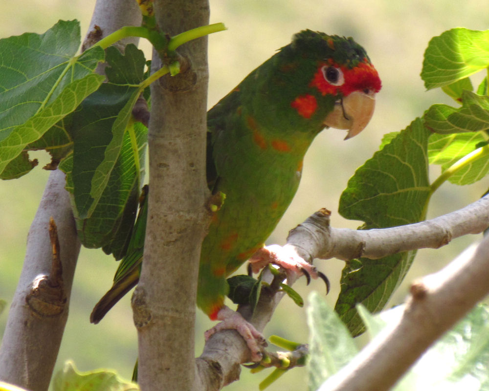 Mitred Parakeet (Aratinga mitrata), Inka Trail to Machu Picchu, Peru